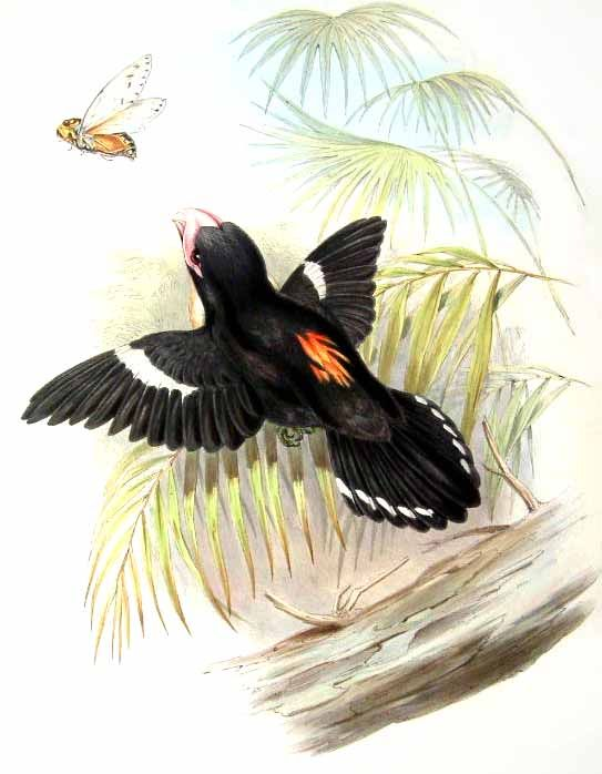 Corydon sumatranus